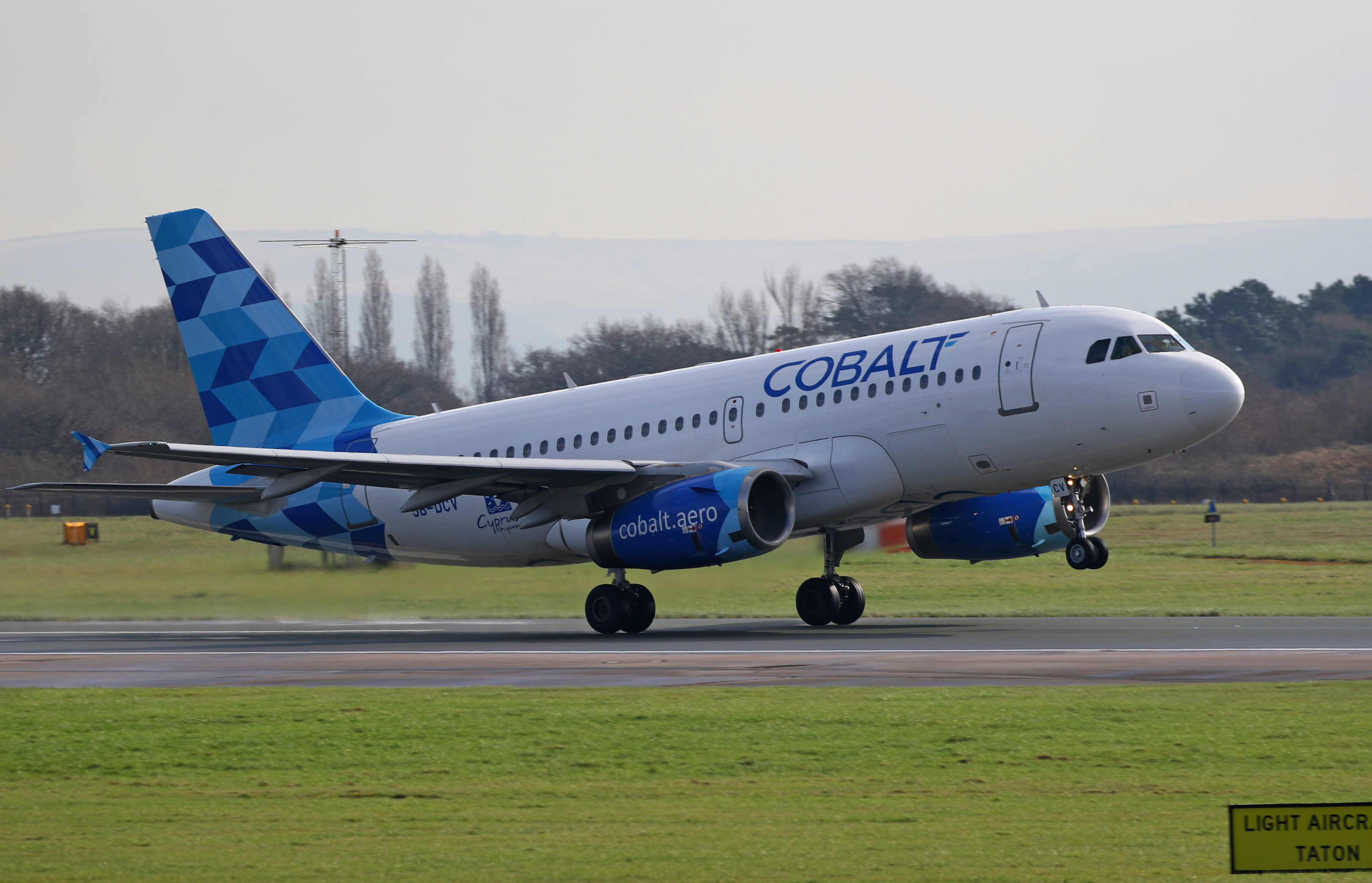 Cobalt Air A319 5B-DCV